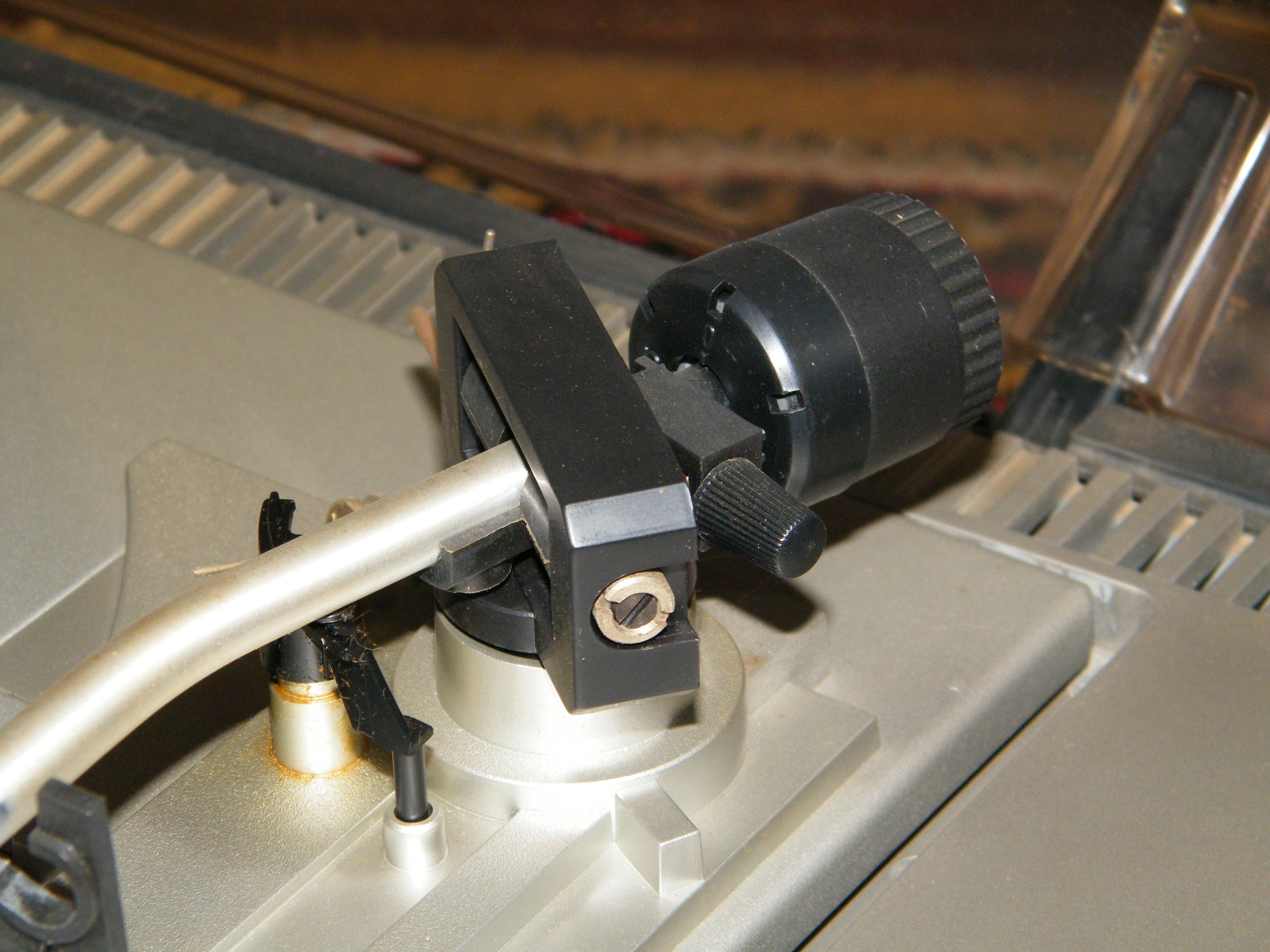 Вега-109 стерео противовес тонарма